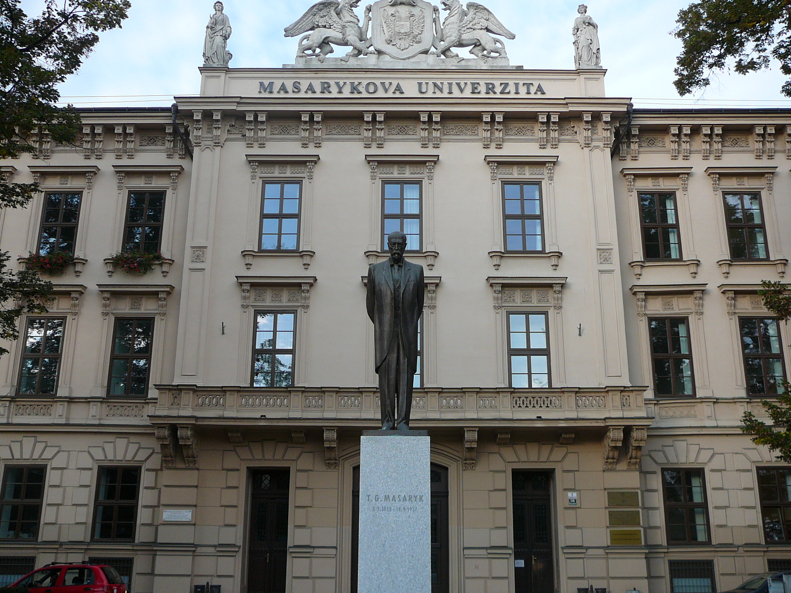 Faculty of Medicine, Masaryk University, Brno